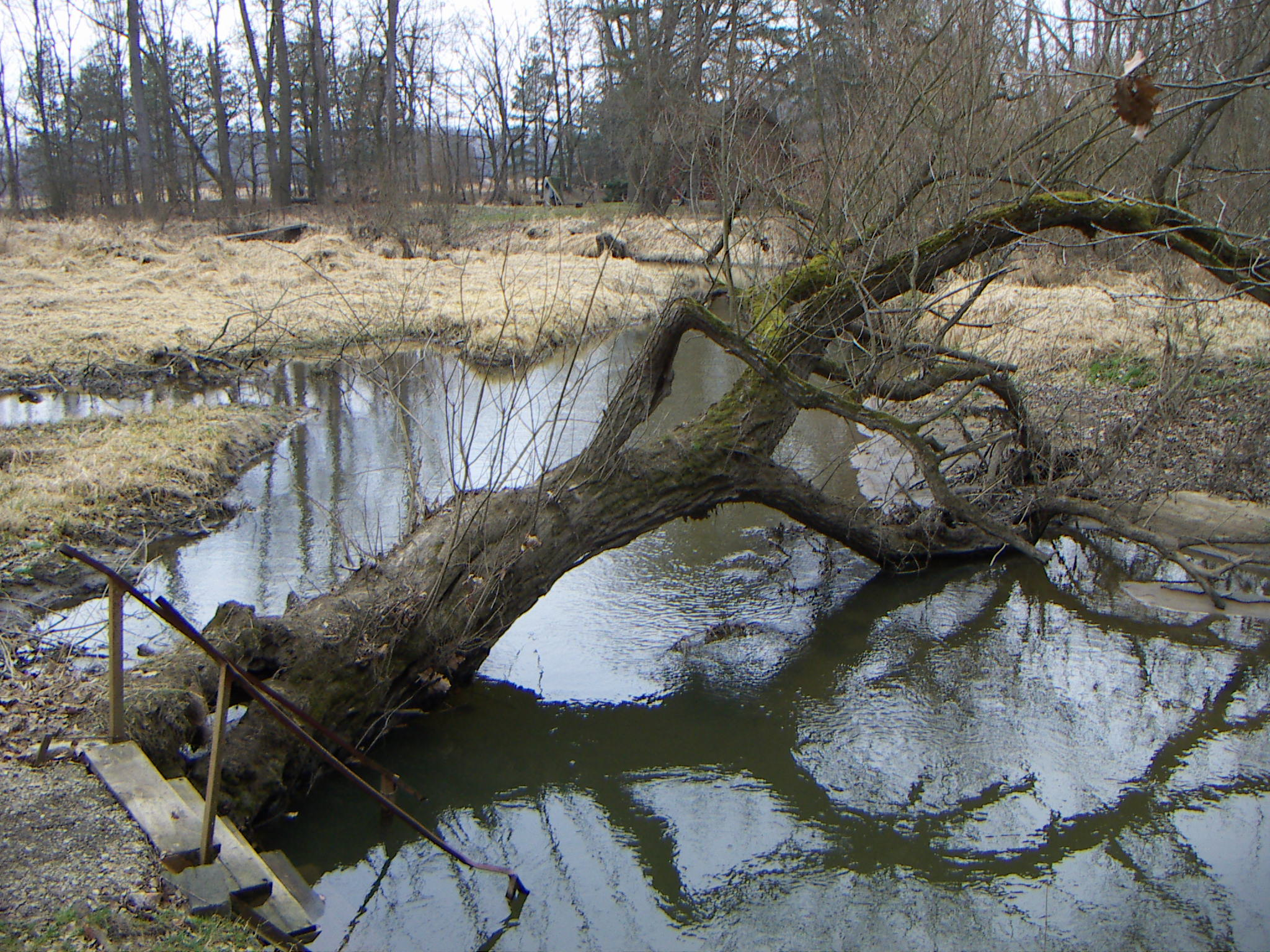 Sauna on the Dírenský Stream in Soběslav, Tábor District, South Bohemian Region, Czech Republic, steps of the sauna, February 2007.